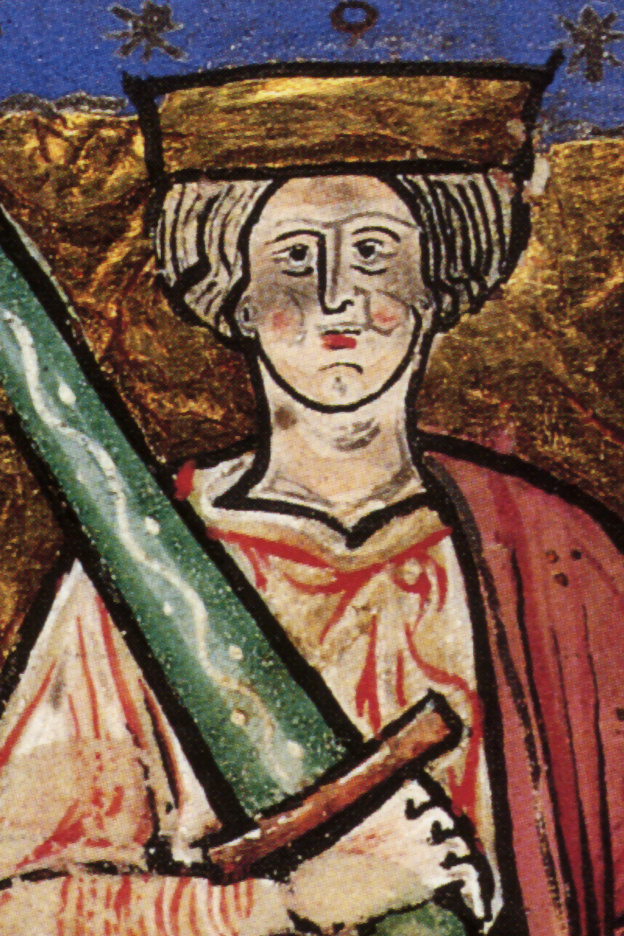 Ethelred the Unready, circa 968-1016. Detail of illuminated manuscript, The Chronicle of Abindon, c.1220. MS Cott. Claude B.VI folio 87, verso, The British Library.